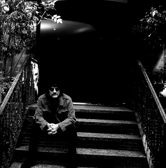 Carmine Appice, drummer of Vanilla Fudge Cactus Beck, Bogert, Appice